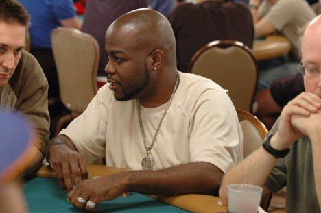 Paul Darden in 2005 World Series of Poker at Rio Las Vegas.